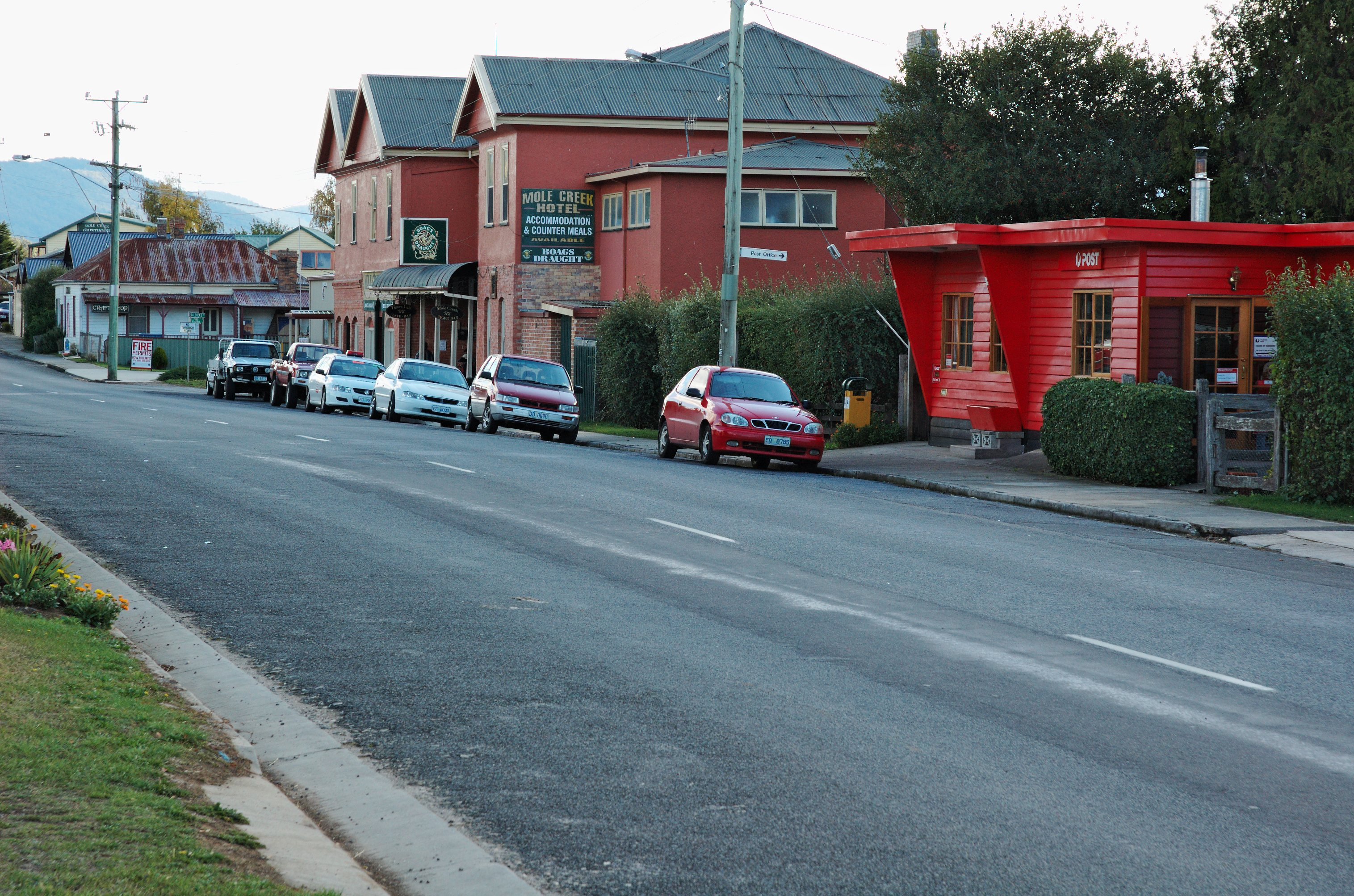 Mole Creek Hotel and post office, Tasmania, on Pioneer Drive (B12).